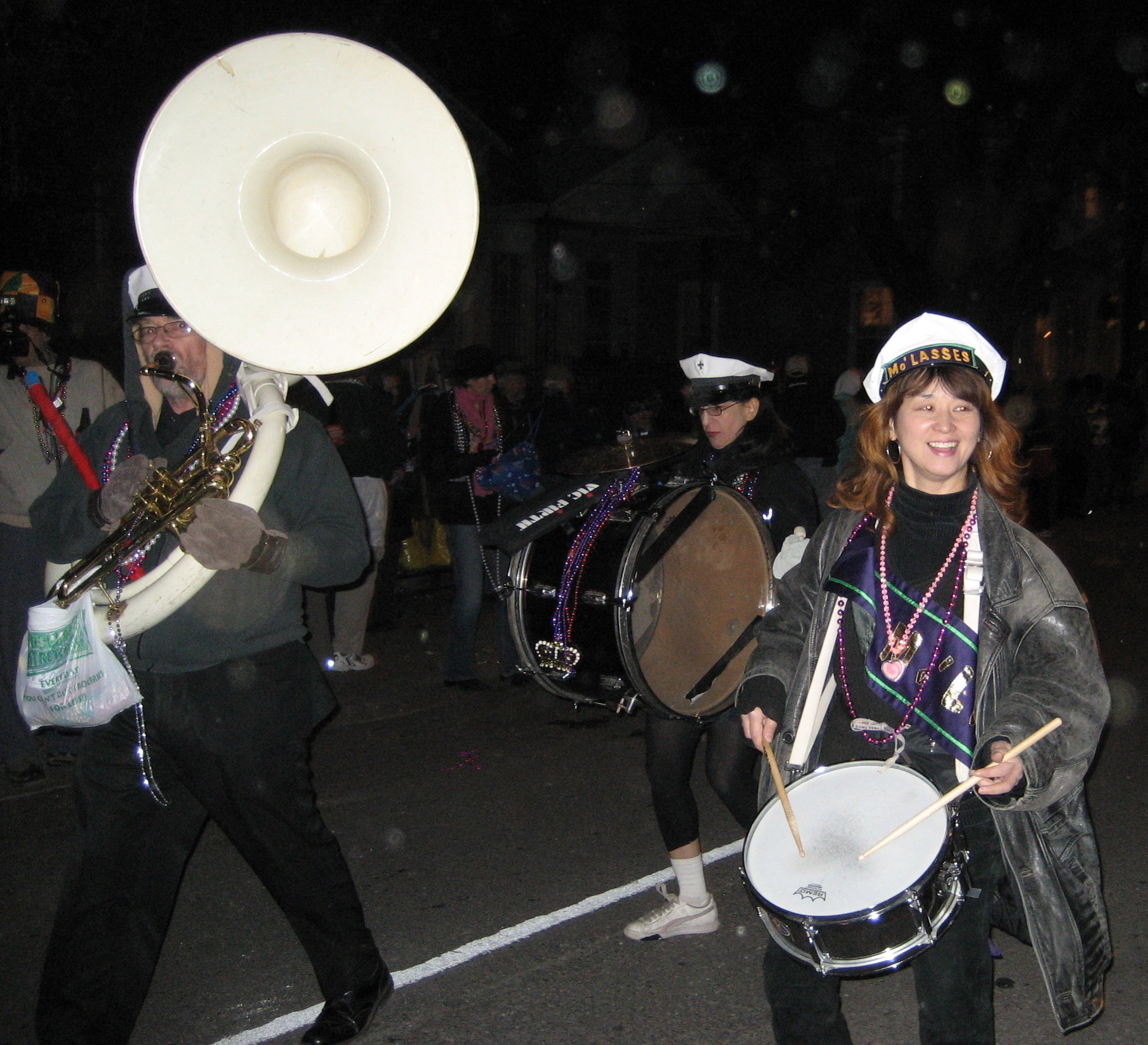 New Orleans "Krewe of Muses" carnival parade: Members of "Mo'Lasses" band